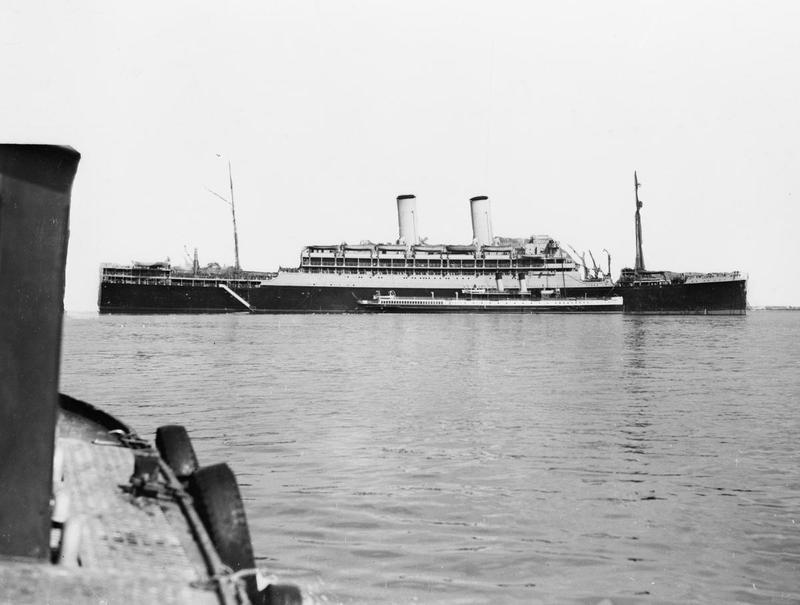 The Norwegian Campaign 1940 The former Orient liner ORONSAY at anchor off Gourock waiting for British troops to embark, 20 April 1940.